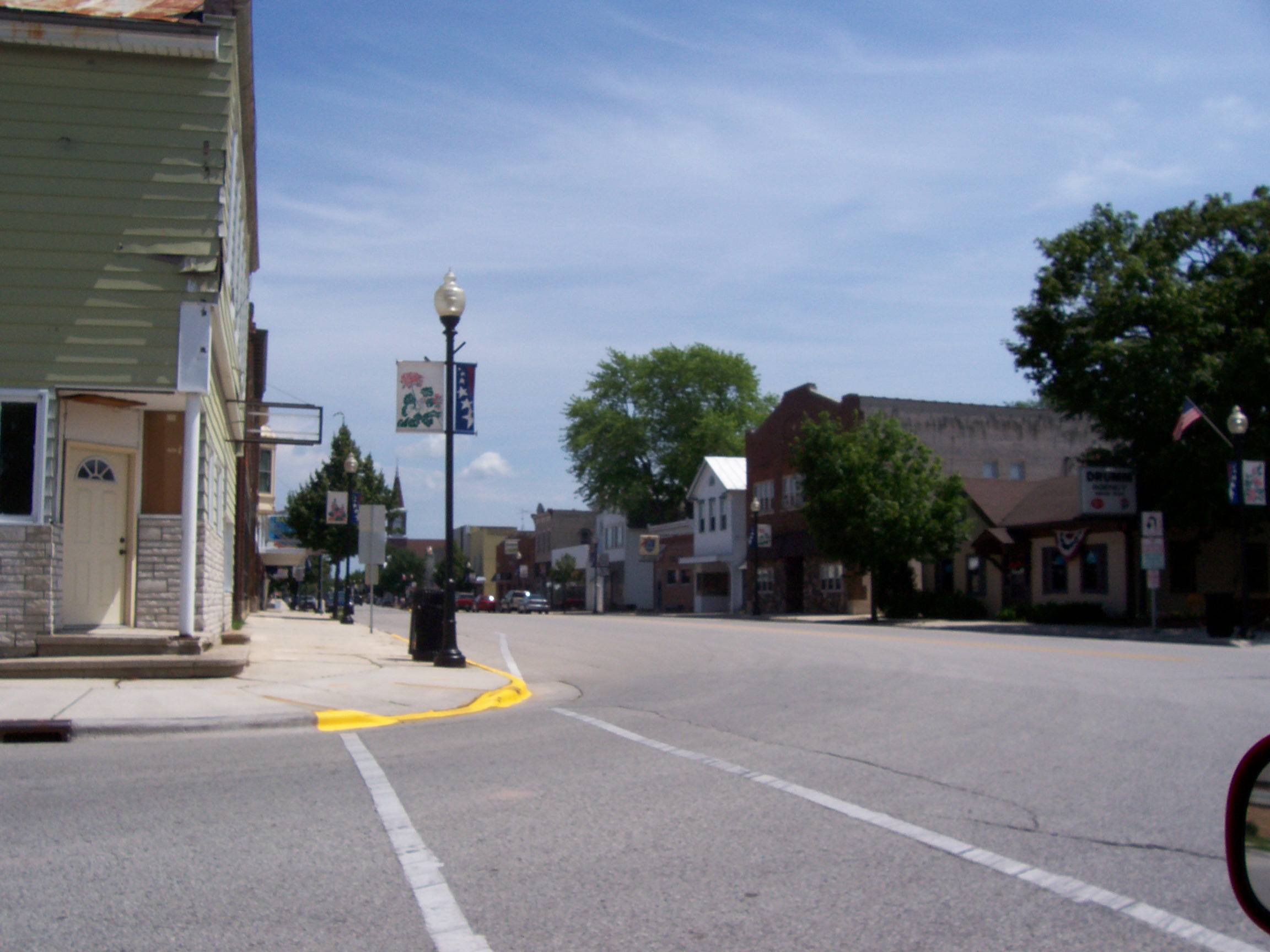 Looking east toward downtown Kiel, Wisconsin, USA, taken July 22 en:2006 by myself. Category:Images of Wisconsin Highways